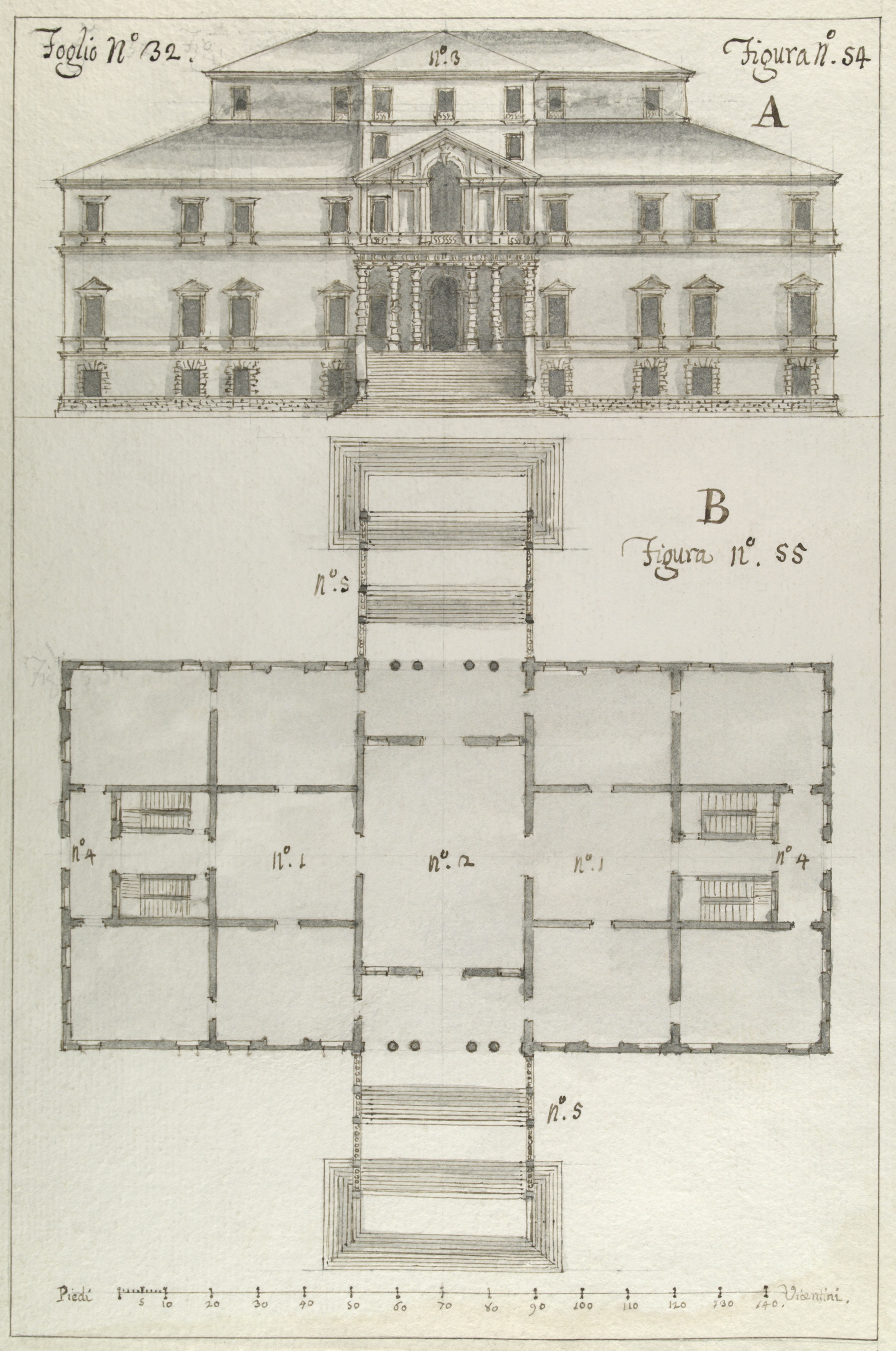 Villa da Lezze in San Biagio di Callalta, province of Treviso, Italy (built 1670-1739 by Baldassarre Longhena; destroyed between 1813 and 1825). Drawing by Francesco Muttoni [1] Disegni originali dell'edizione di Palladio di Giorgio Fossati. From drawings in pen and ink and wash intended for engraving by Fossati and for inclusion in vol. 10 of Muttoni's edition of Andrea Palladio's Architettura (Venice, 1740-48); vol. 10 was never published. Digitized version scanned from manuscript.